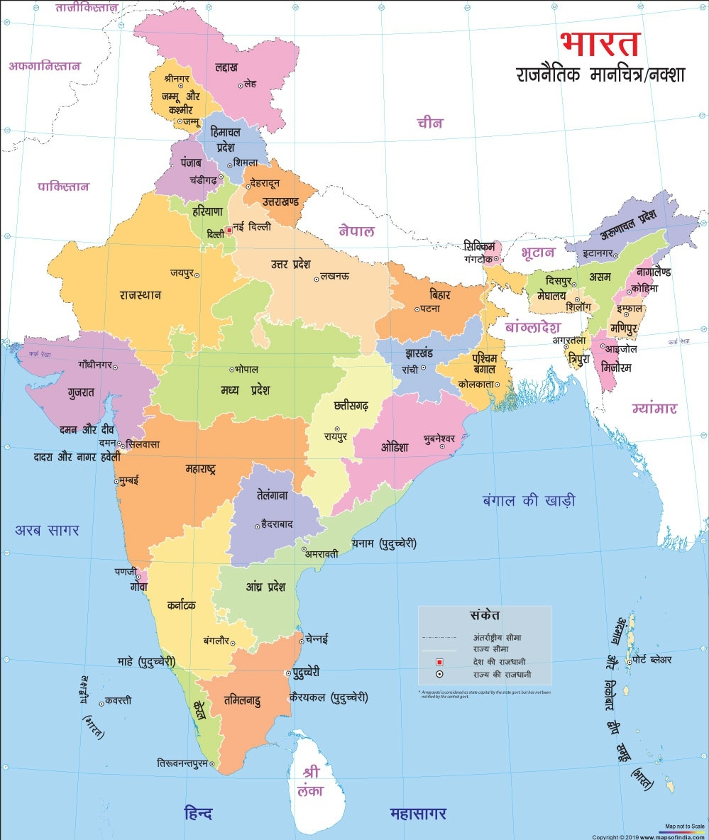 मैप ऑफ इंडिया